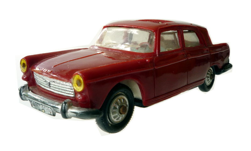 Peugeot 404 comme miniature Norev (produit environ 1970)